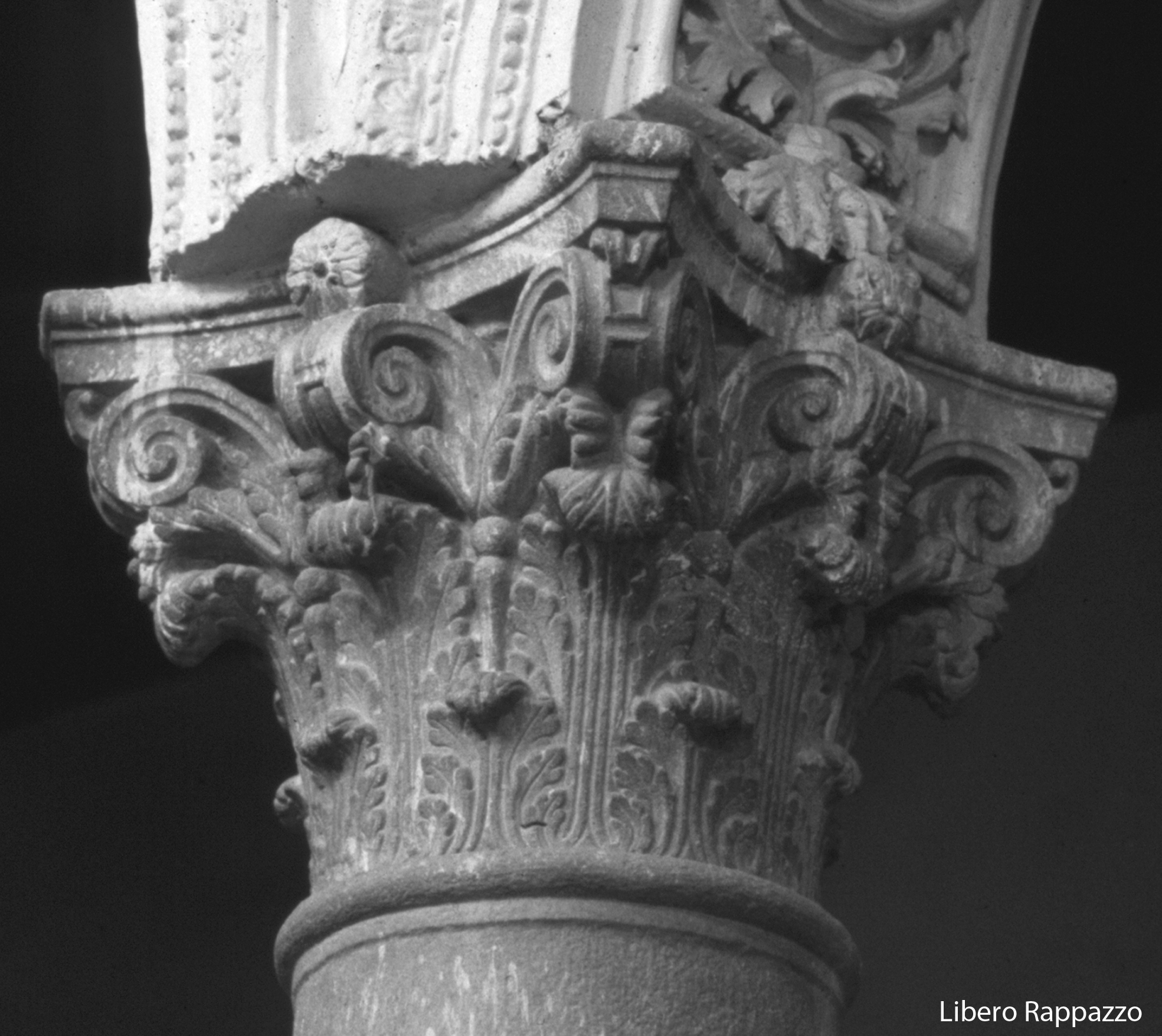 Santa Lucia del Mela, Church of the Annunciation, particle